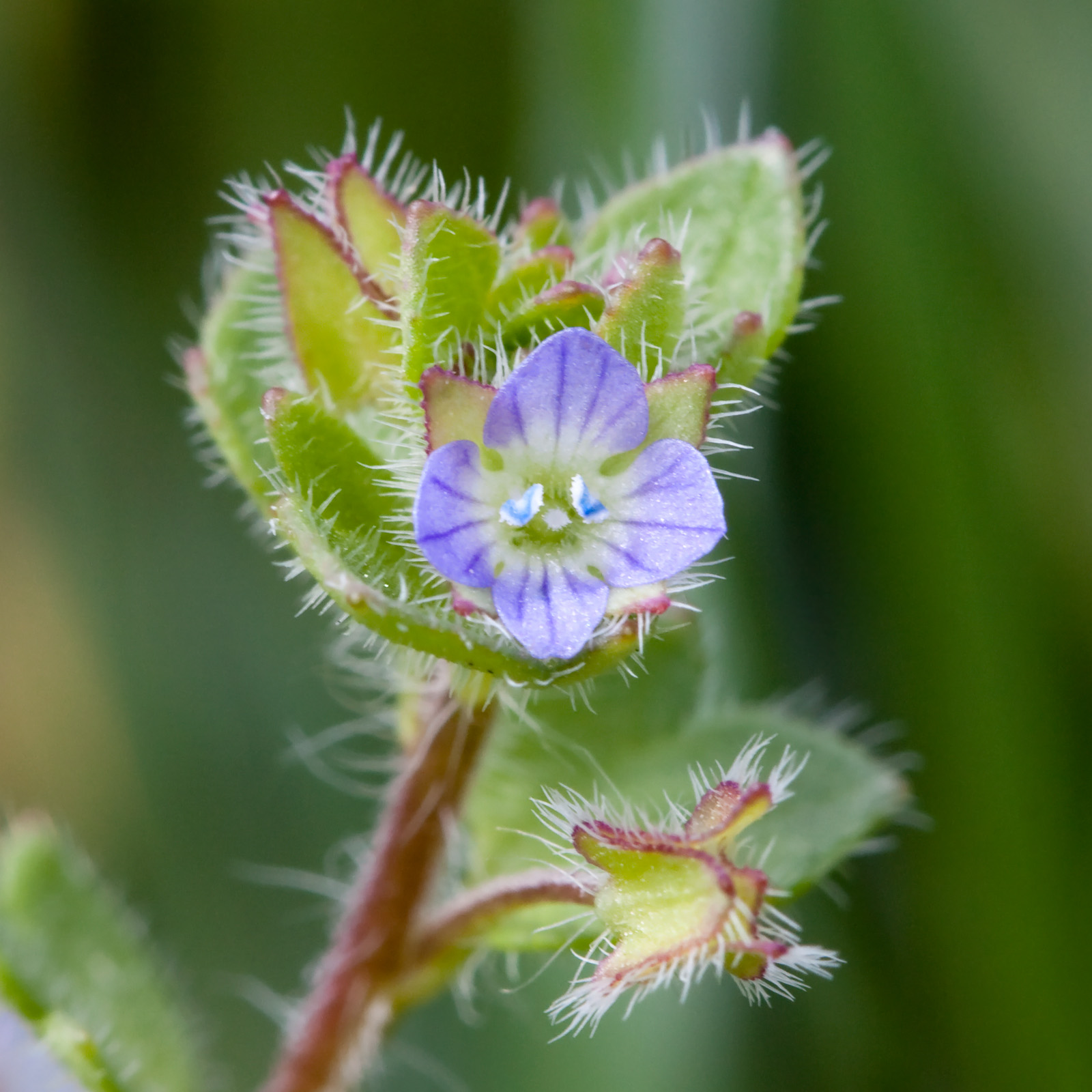 Ivy-leaved Speedwell (Veronica hederifolia) in Nashville, Tennessee